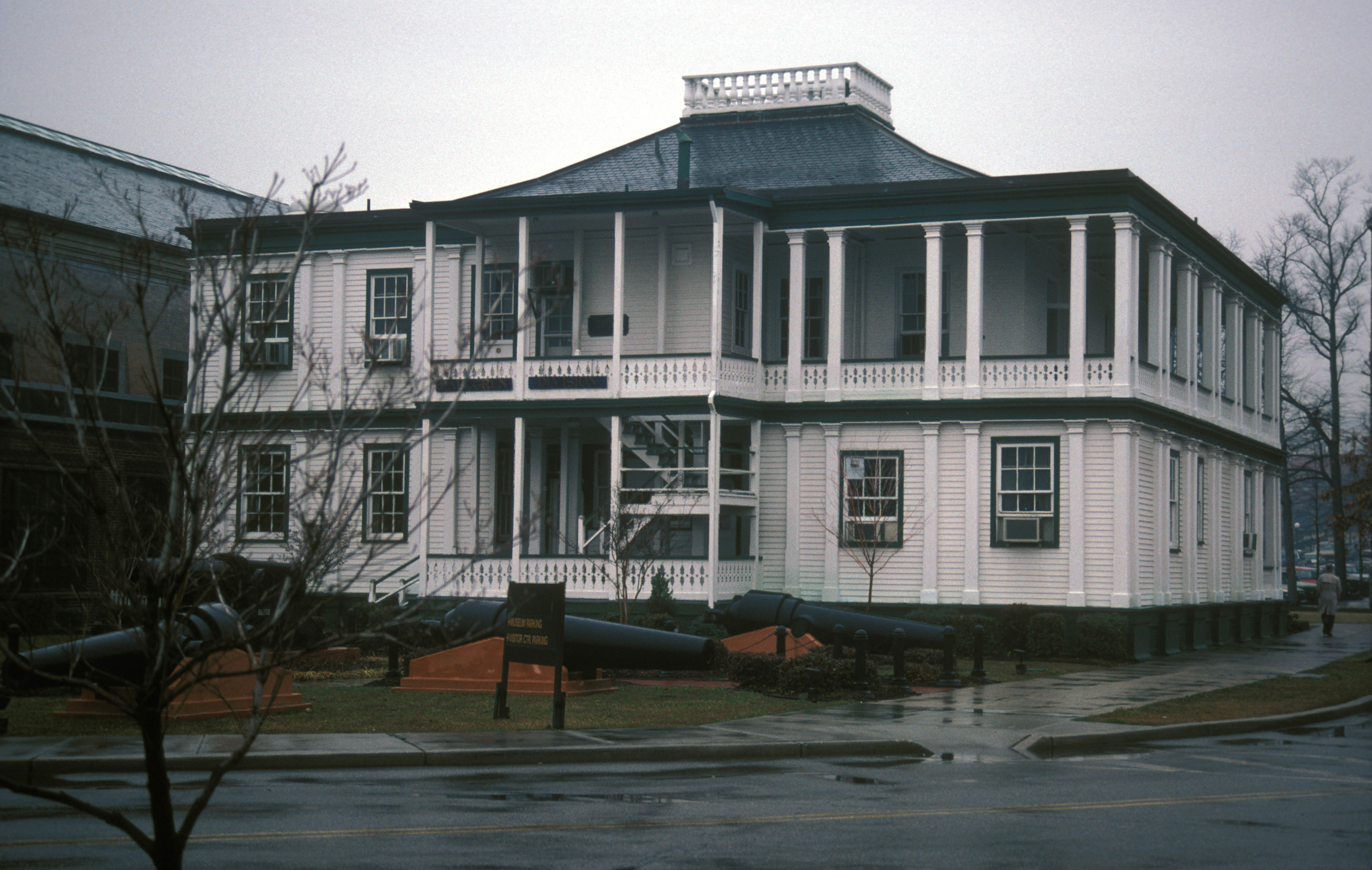 COMMANDANT’S OFFICE CONSTRUCTED IN 1837 BUT REMODELLED IN 1948 WHEN MOST OF THE PORCH WAS ENCLOSED WITH WEATHERBOARDING